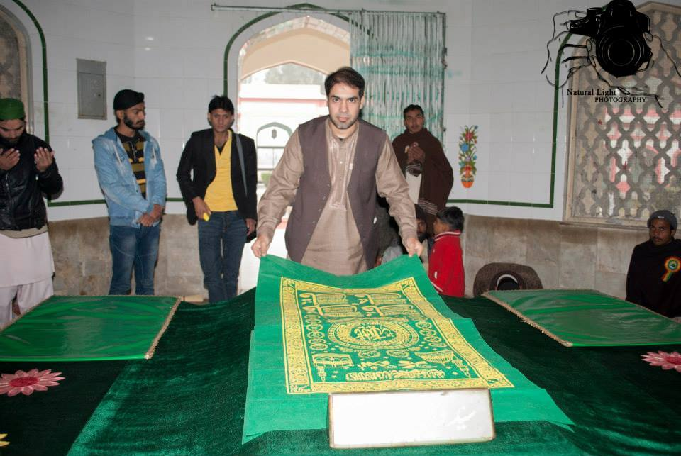 Farhan Wilayat (Philanthropist) presenting chadar at Waris Shah's Shrine